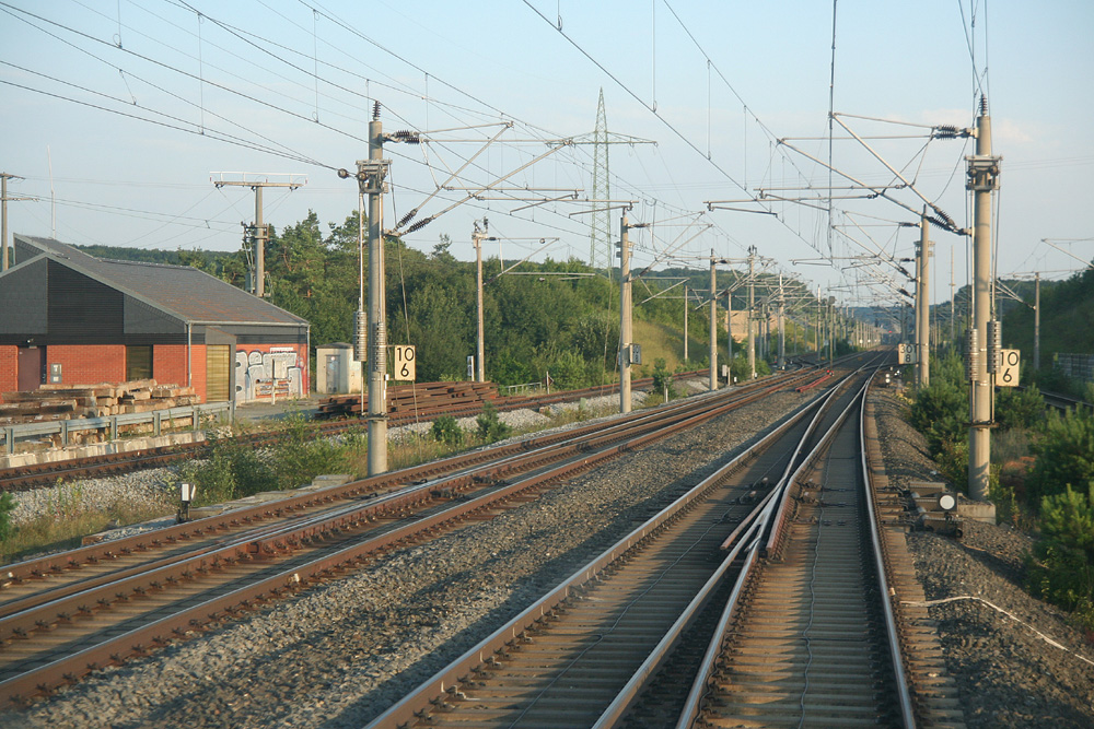 Interlock tower, high-speed points on the station of Rohrbach on the Hannover-Würzburg high-speed railway line